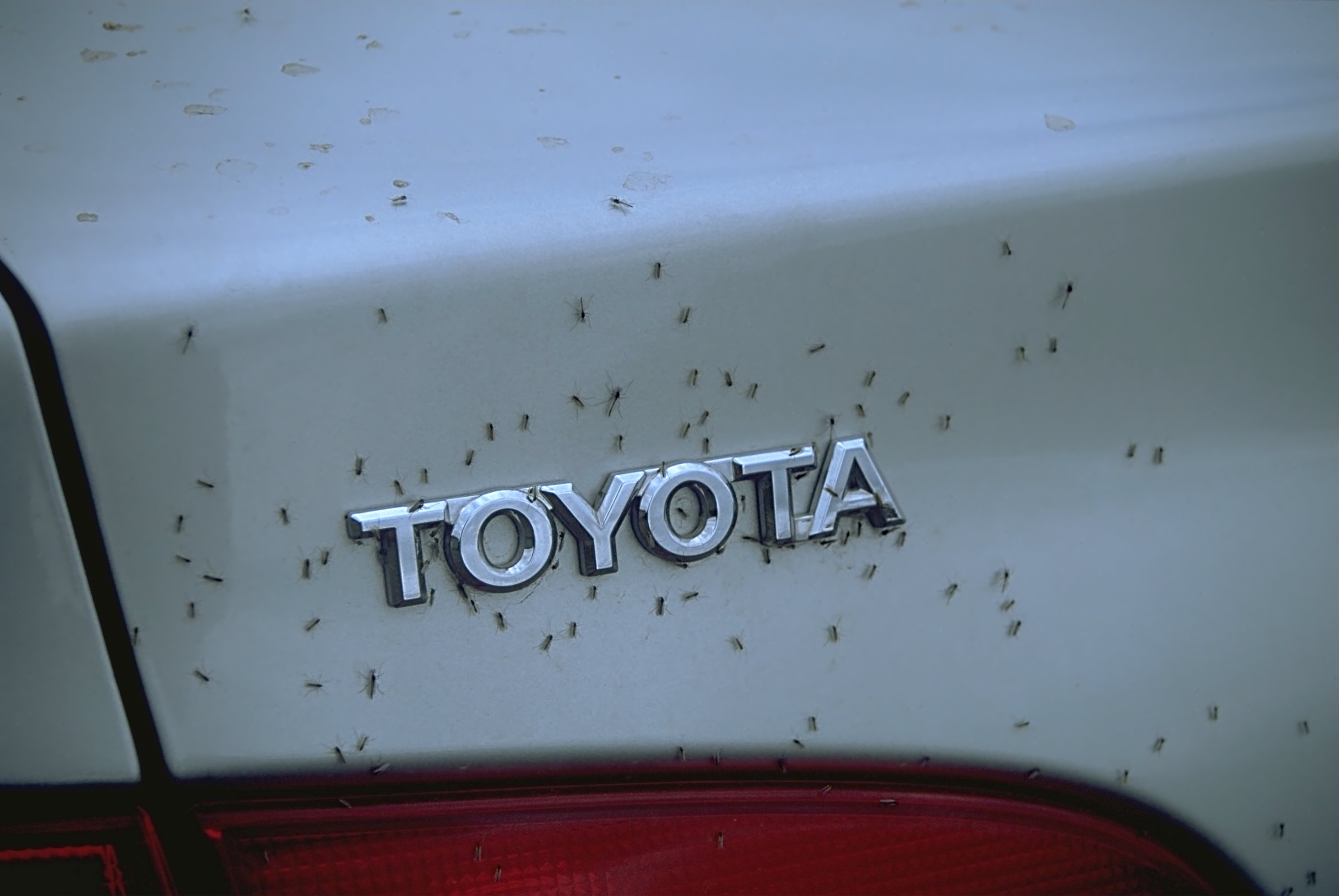 Midges on a Toyota. Photo was taken using the following technique: Film: Fuji Velvia Lens: 4/70-210 Filter: Body: Minolta Dynax 7 Support: Manfrotto 190B Image with Information in English Bild mit Informationen auf Deutsch